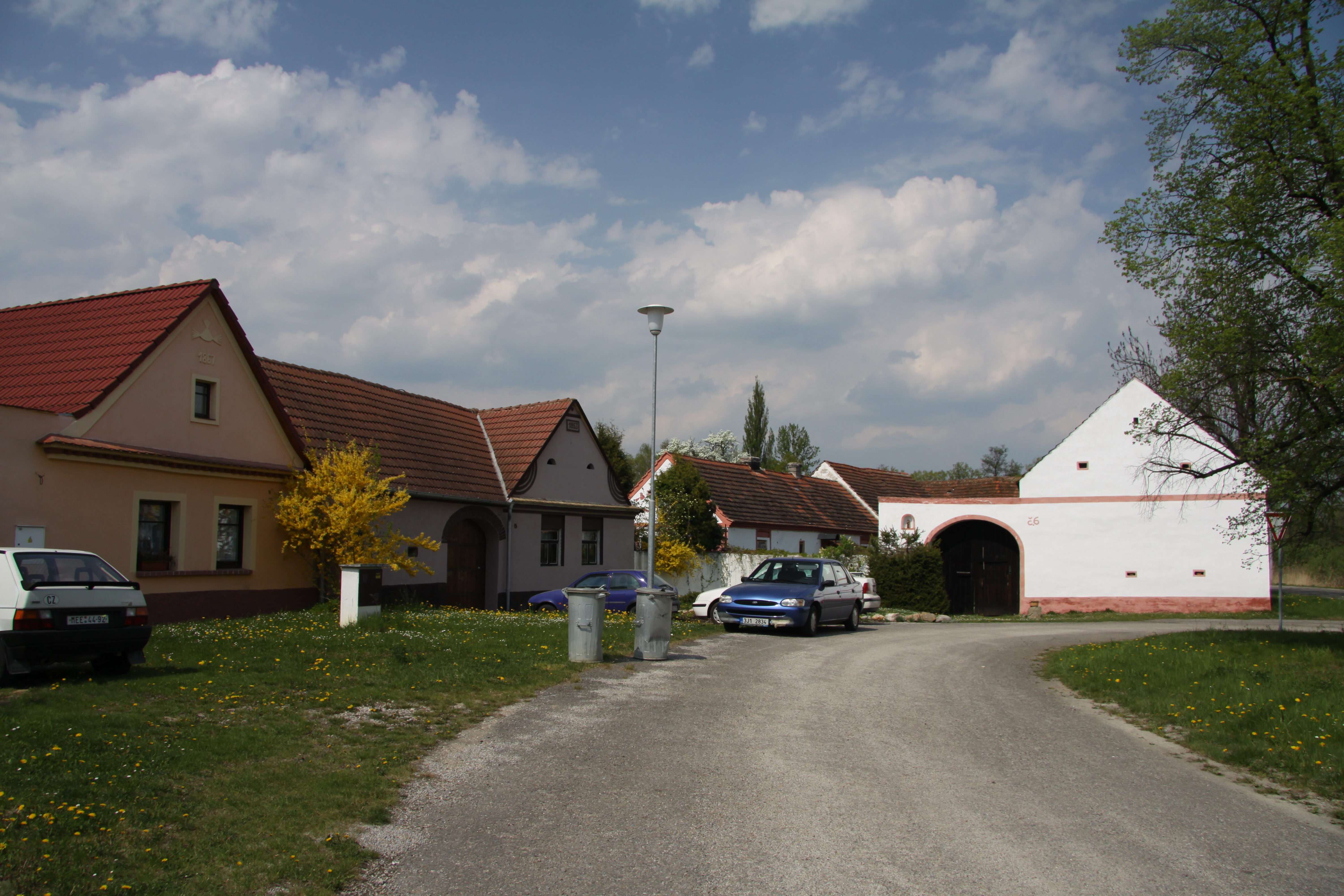 Houses in Dívčice village, České Budějovice District, Czech Republic - Google Maps - Google Earth